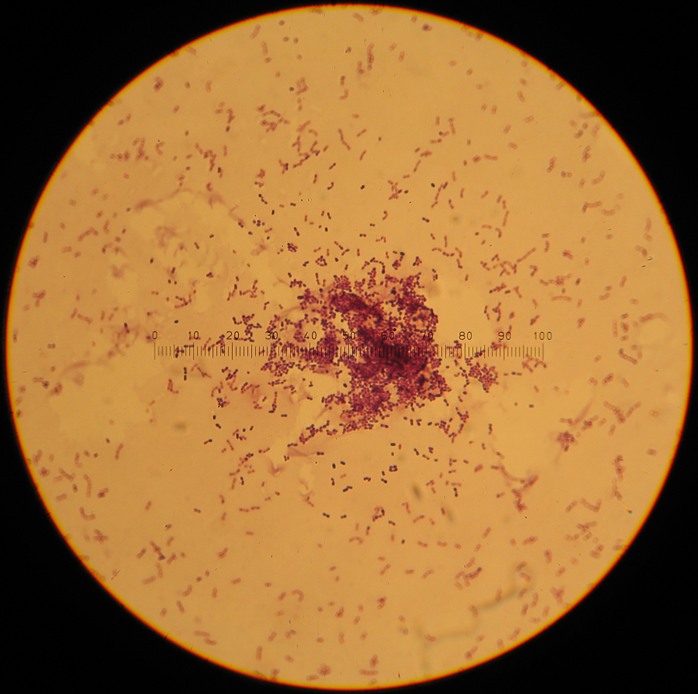 Lactococcus lactis, basonym Streptococcus lactis . Gram stained smear, 100X (oil immersion).